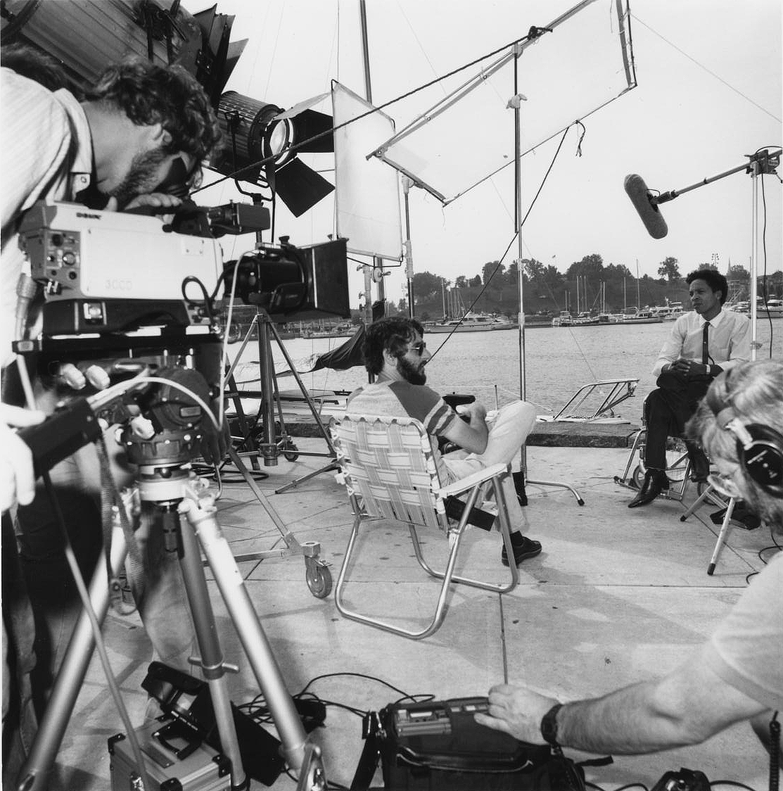 During the 1980s the introduction of electronic field production cameras began to blur the distinction between traditional cinematography and videography. Corporate video productions Award-winning Houston Videography Production Agency.